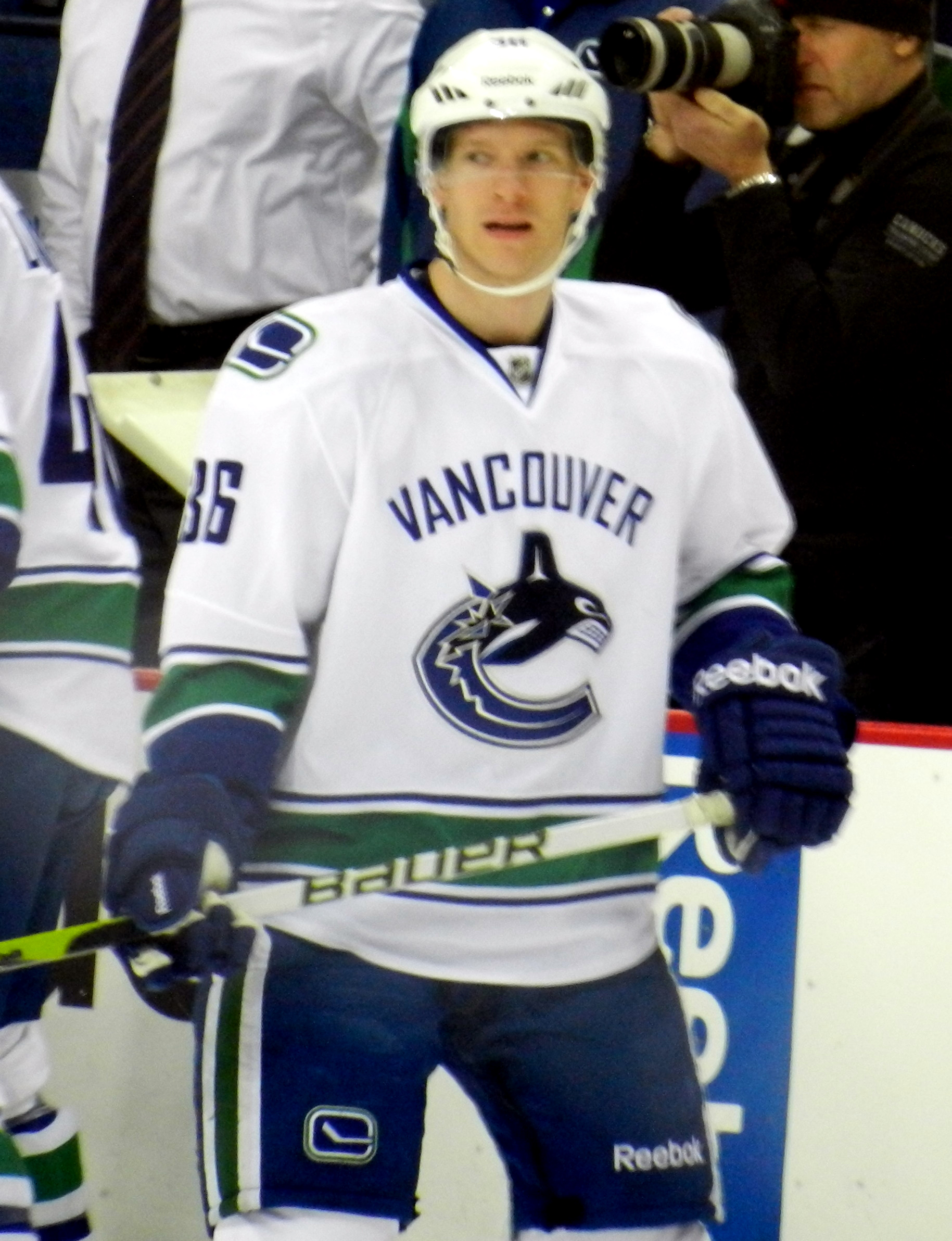 Jannik Hansen playing for the Vancouver Canucks during warm-up of a game vs. the Columbus Blue Jackets in the 2011-12 season. Vancouver lost the game 2-1 in a shoot-out